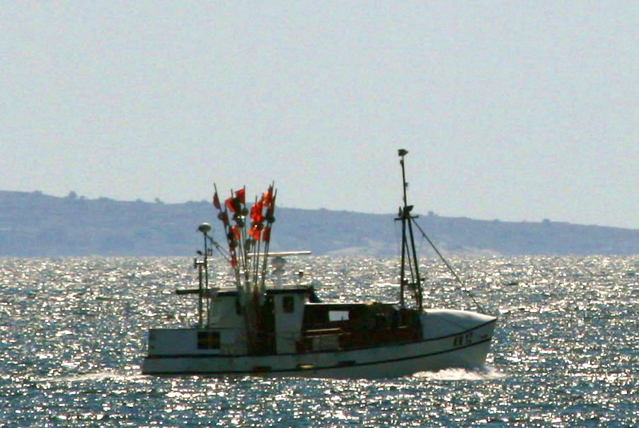 Fishing Boat